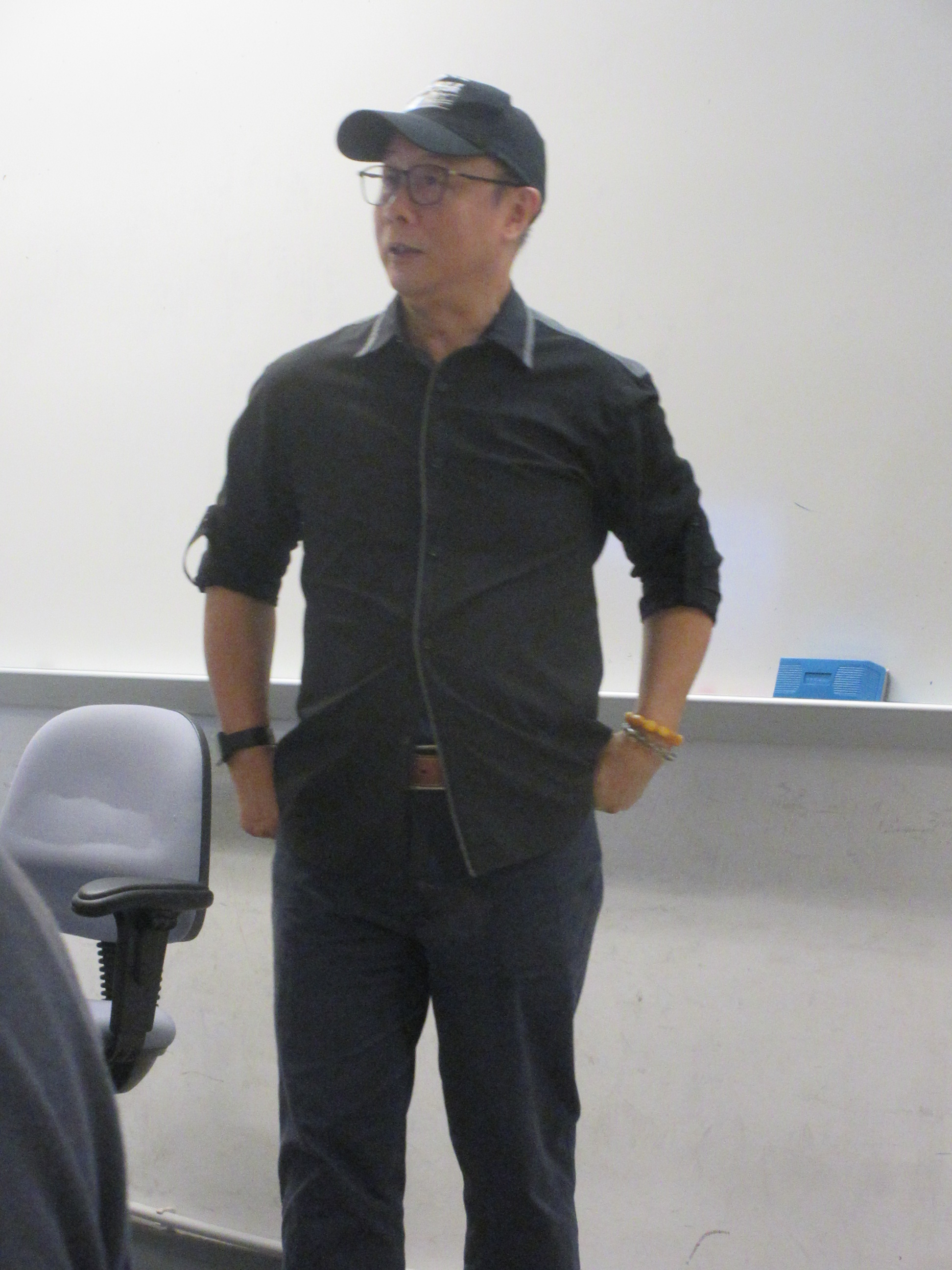 HK TKL 黃永明 Danny Wong Wing-Ming April 2019